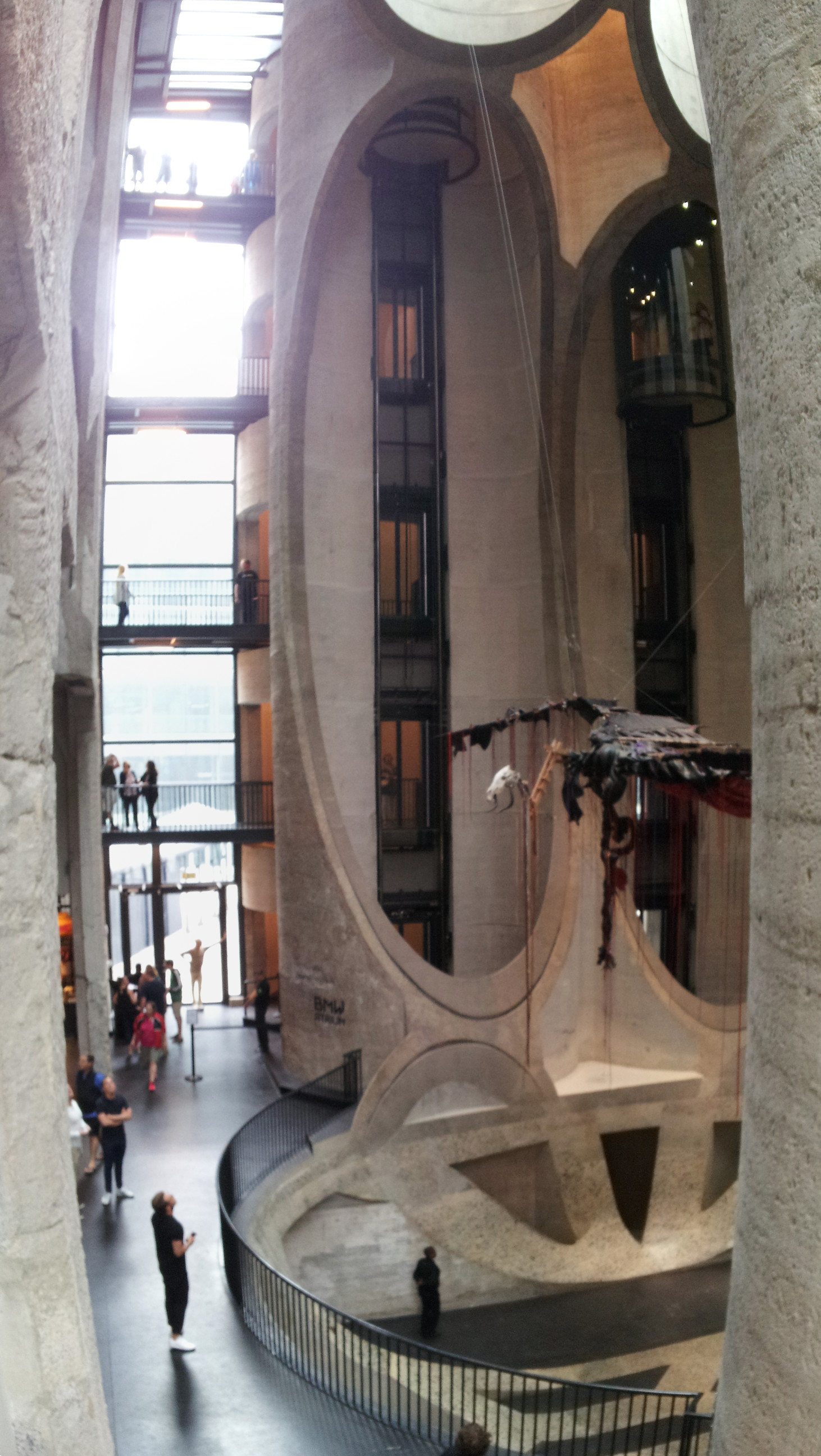 View of the Zeitz museum of modern art in Cape Town.